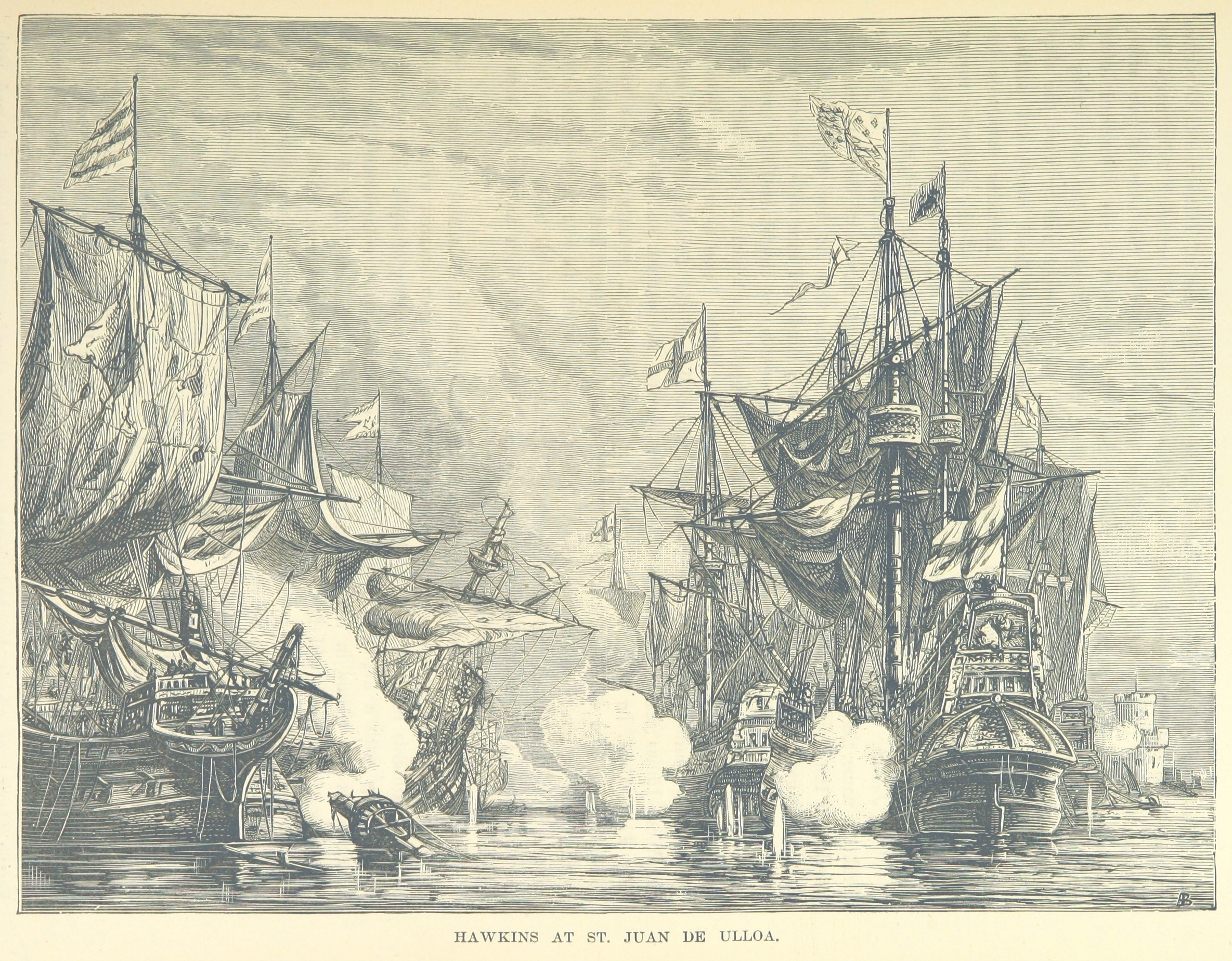 An 1887 illustration of the Battle of San Juan de Ulúa (1568).